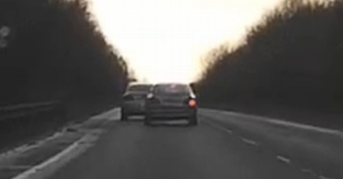 A typical example of tailgating. A BMW is being followed very closely by another car (with faulty brake lights)